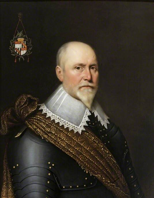 Portrait of Oliver St John, 1st Viscount Grandison (1559-1630)